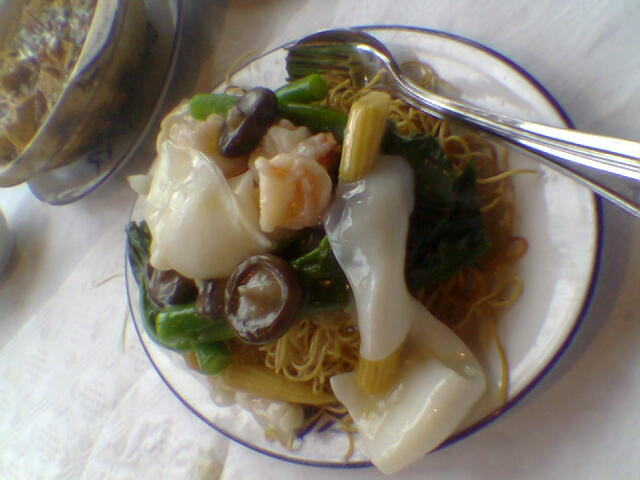 Ifu mie, Chinese food